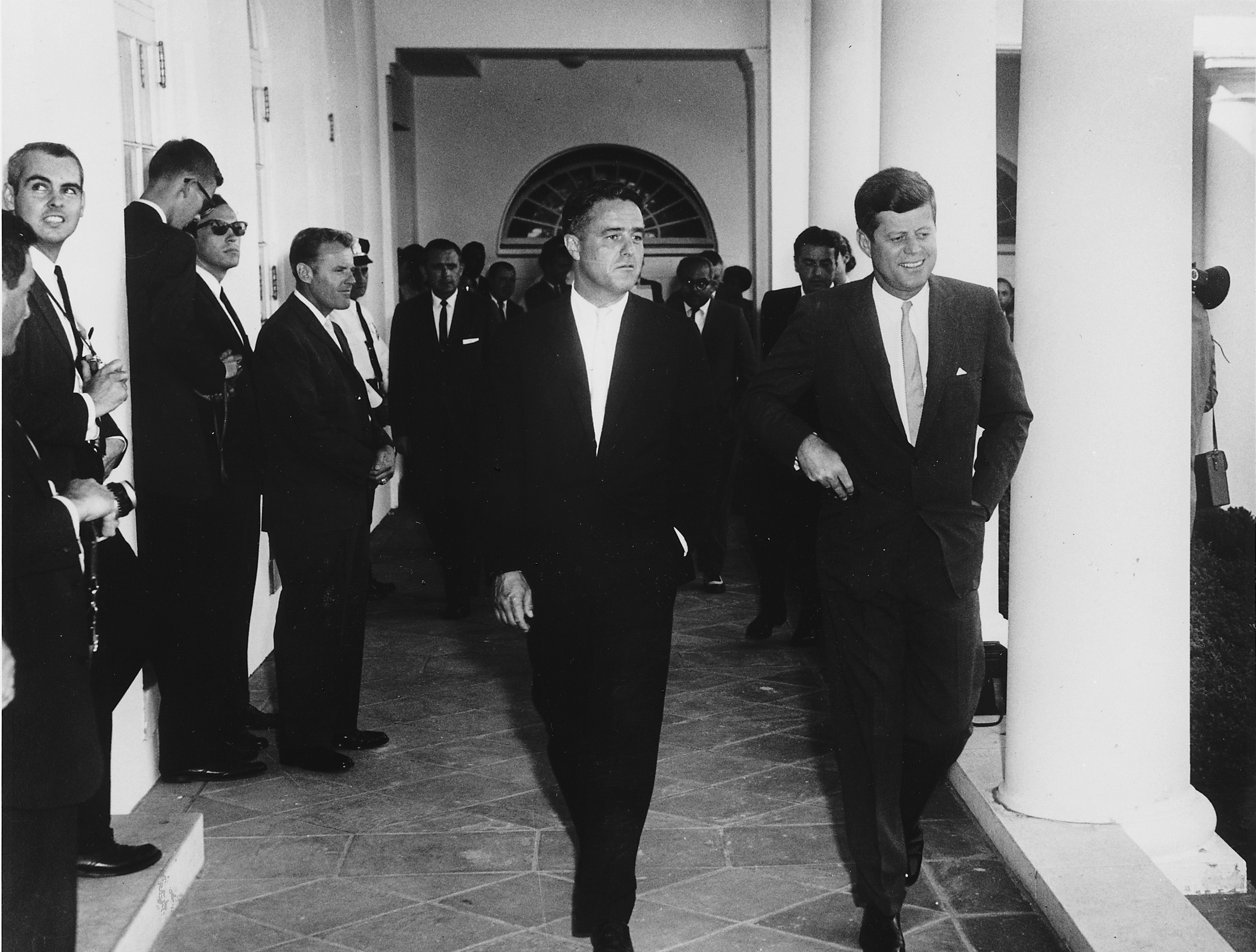 Sargent Shriver, director of the Peace Corps,(center) and U.S. President John F. Kennedy (right) at the White House.